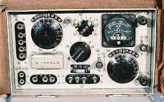 Japanese WW2 Military Wireless